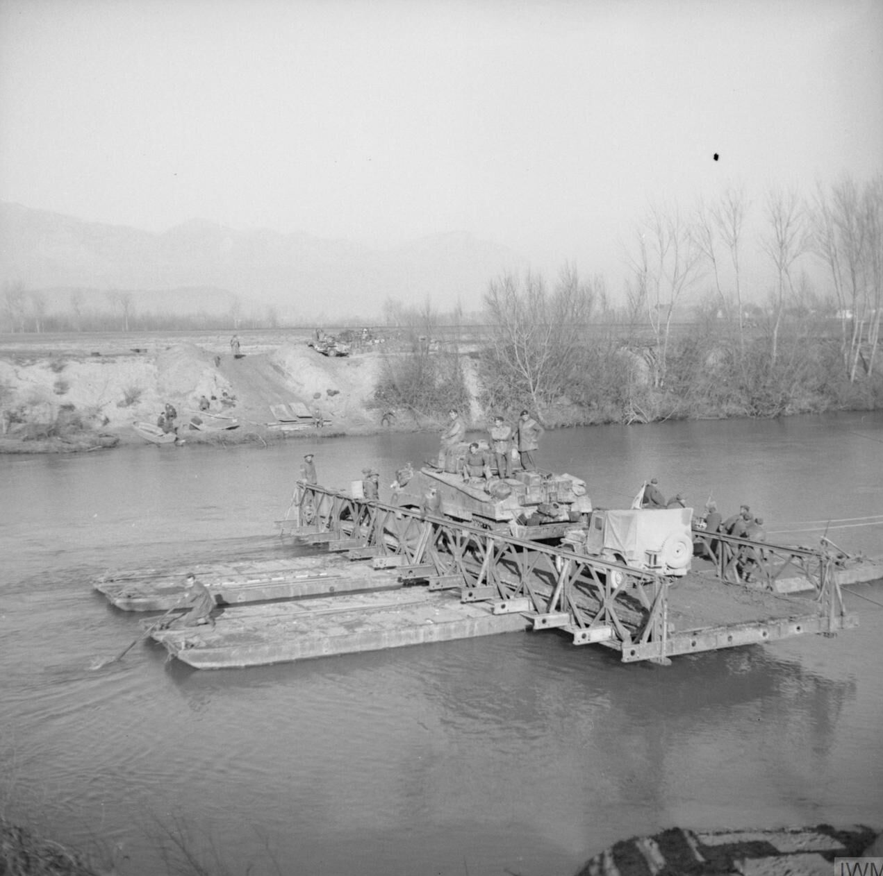 The British Army in Italy 1944 A Sherman tank being rafted across the River Garigliano, 20 January 1944.